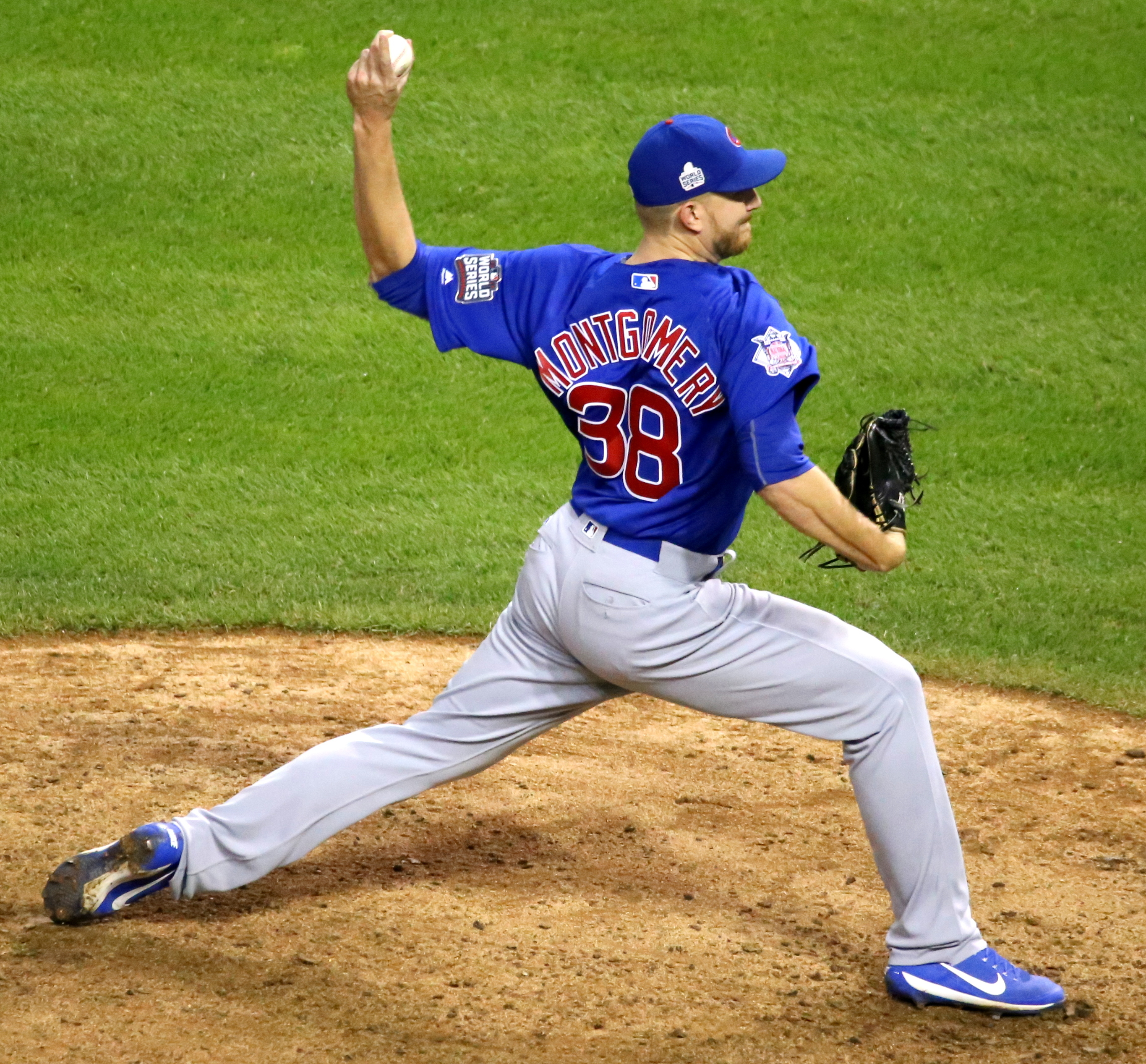 Cubs reliever Mike Montgomery delivers a pitch in the 10th inning of World Series Game 7.